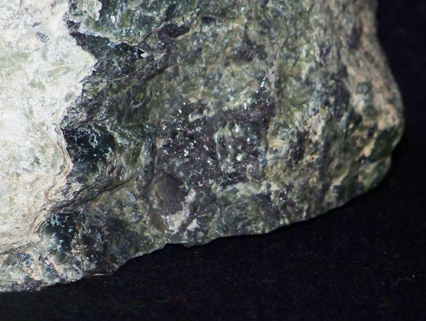 Magnetite and other spinels Fe-Cr and serpentines in serpentinites from Sobótka, near Wrocław, Lower Silesia, Poland